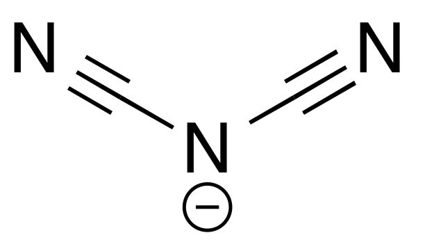 Skeletal structure of dicyanamide.